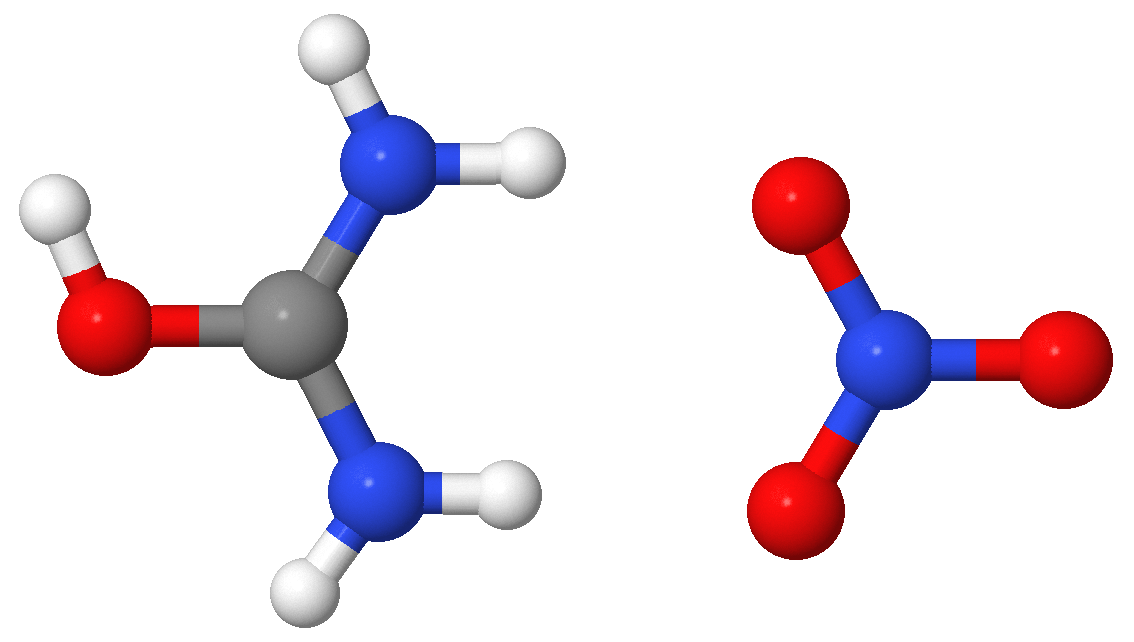 Urea nitrate crystal structure unit generated from data taken from via